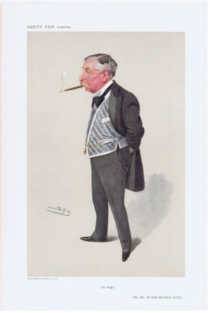 Portrait of Major-General Sir Hugh McCalmont published in Vanity Fair 1906